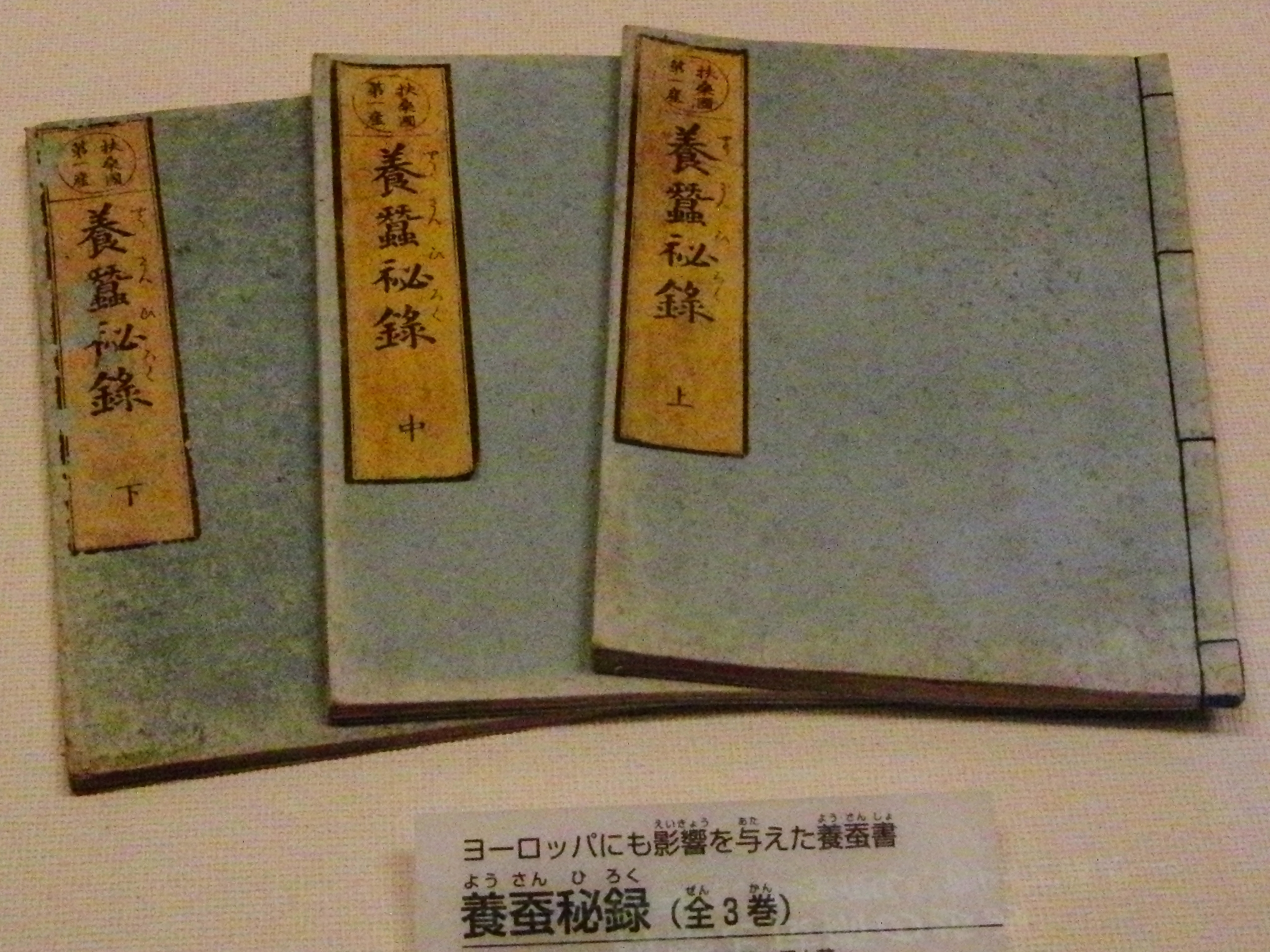 "Yosan-Hiroku", Japanese book of sericulture technology written by Morikuni UEGAKI in 1803. Exhibit in the National Museum of Nature and Science, Tokyo, Japan.